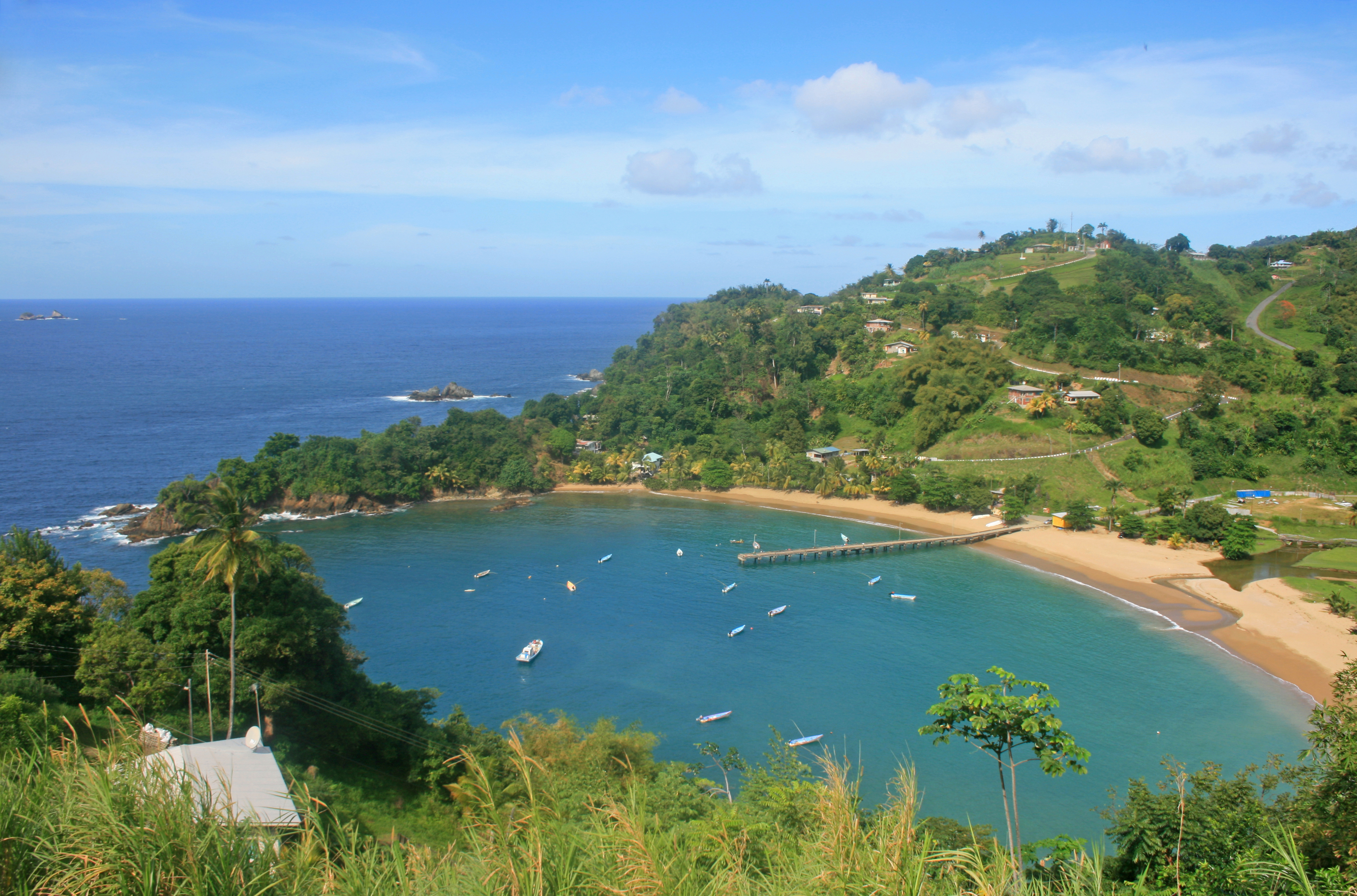 A view of Parlatuvier Bay in Trinidad and Tobago. This picture was taken in February 2009.